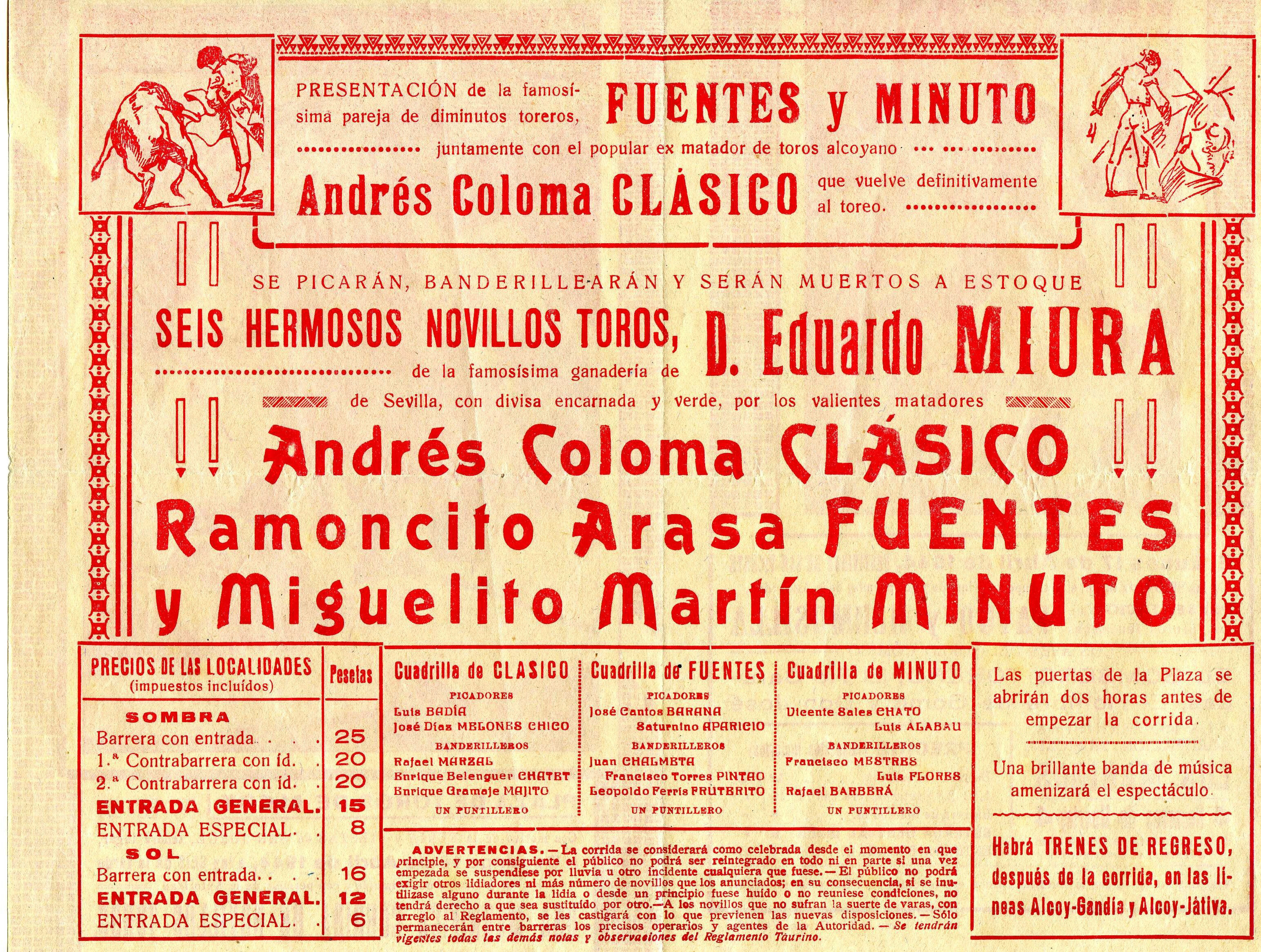 Poster of the last appearance as a bullfighter of Andrés Coloma Sanjuán, Clásico, matador from Alcoi. Alcoi, 16th April 1944.